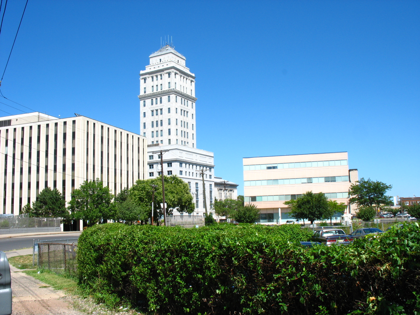 Union County Courthouse in Elizabeth. Union County Court House.